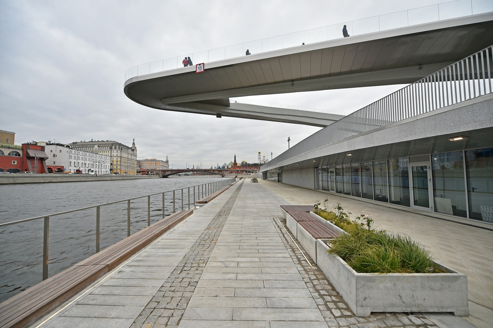 Park Zaryadye in Moscow